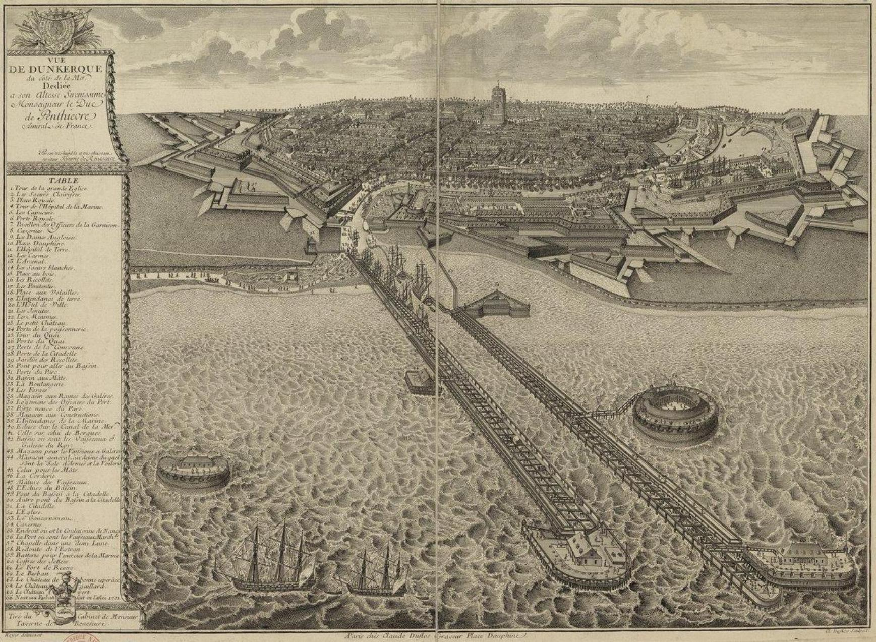 View of Dunkirk sea side to 1700-1710 with fortifications built by Monsieur de Vauban. Image dedicated to Admiral of France Duke of Penthièvre, Count of Toulouse, bastard son of Louis XIV.